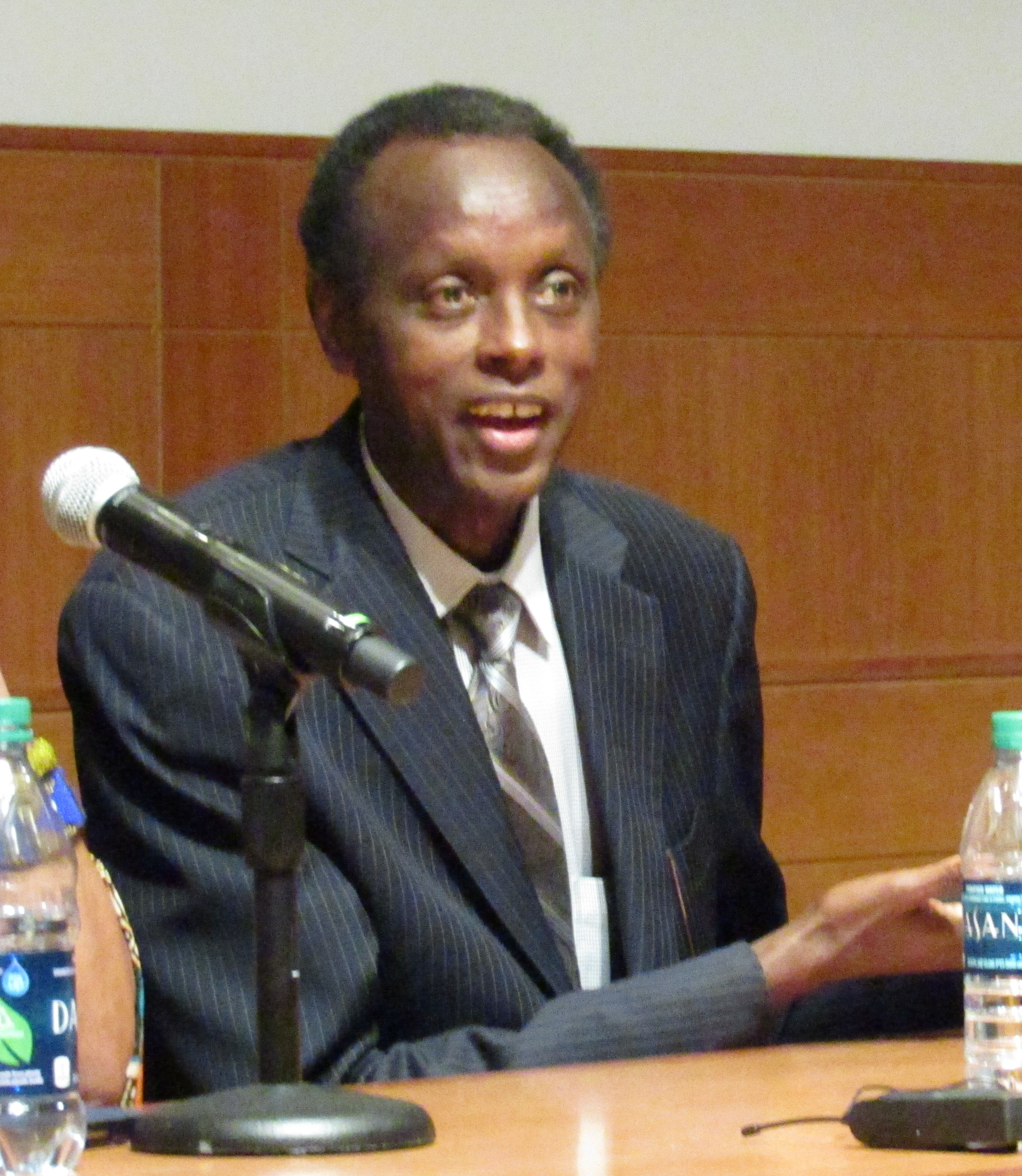 Joseph Sebarenzi speaking at the Forgiveness & Reconciliation symposium.